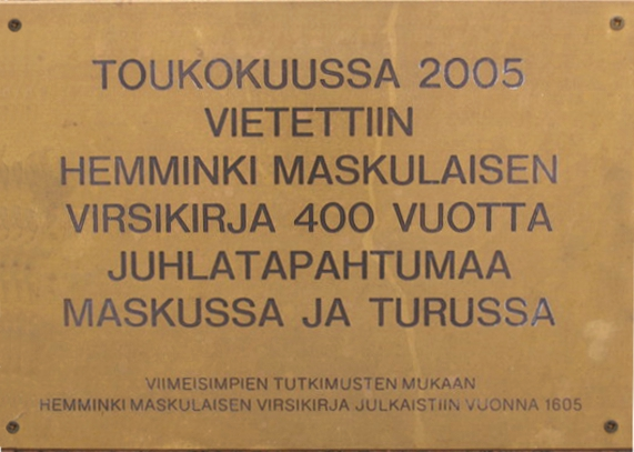 Commemorative plaque for the psalmbook of Hemminki Maskulainen on his memorial in the graveyard of Masku.